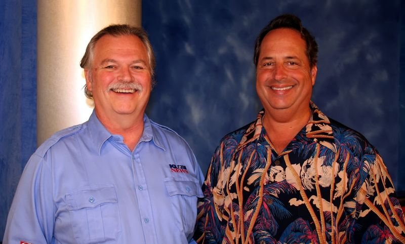 Comic/Actor Jon Lovitz with Phil Konstantin